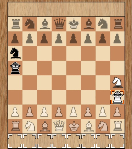 White will chose the Gate (or Square) where the Spider will be dropped. Highlighted on the picture all the possible Gating squares. The Spider will wait on a virtual square. For example, if we want the Spider to Gate on the f1 square, the Spider will be waiting on a virtual f0 square behind the f1 square. The drop (or Gating) will happen at the same time, when the Bishop f1 moves for the first time.